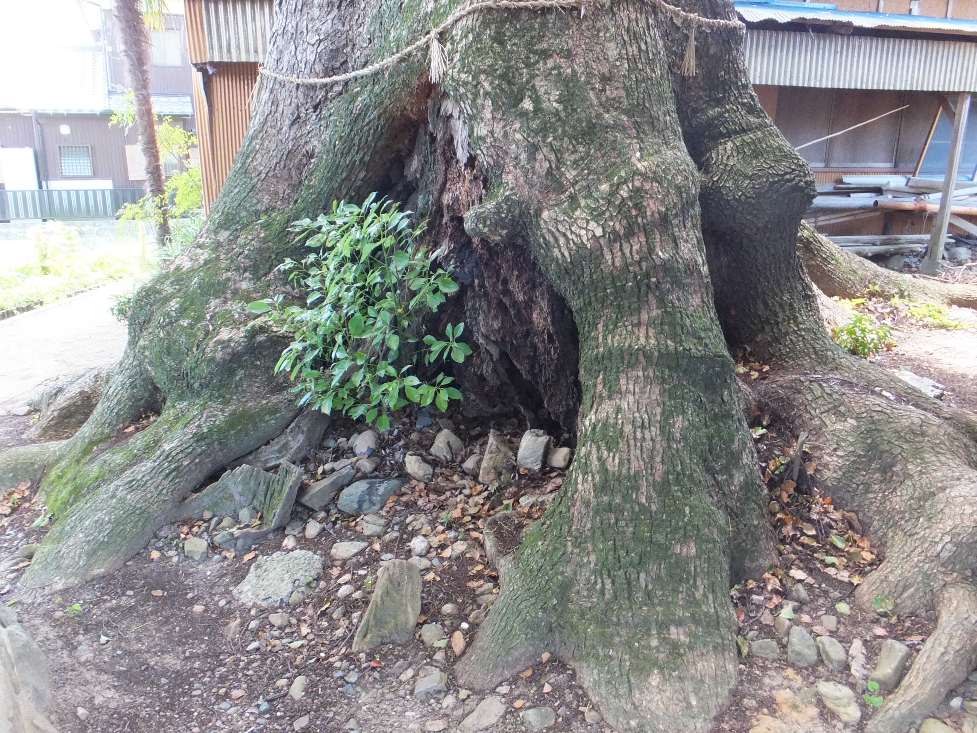 Sekigawa Jinja (関川神社), at Sekigawa, Akasaka, Toyokawa, Aichi, Japan